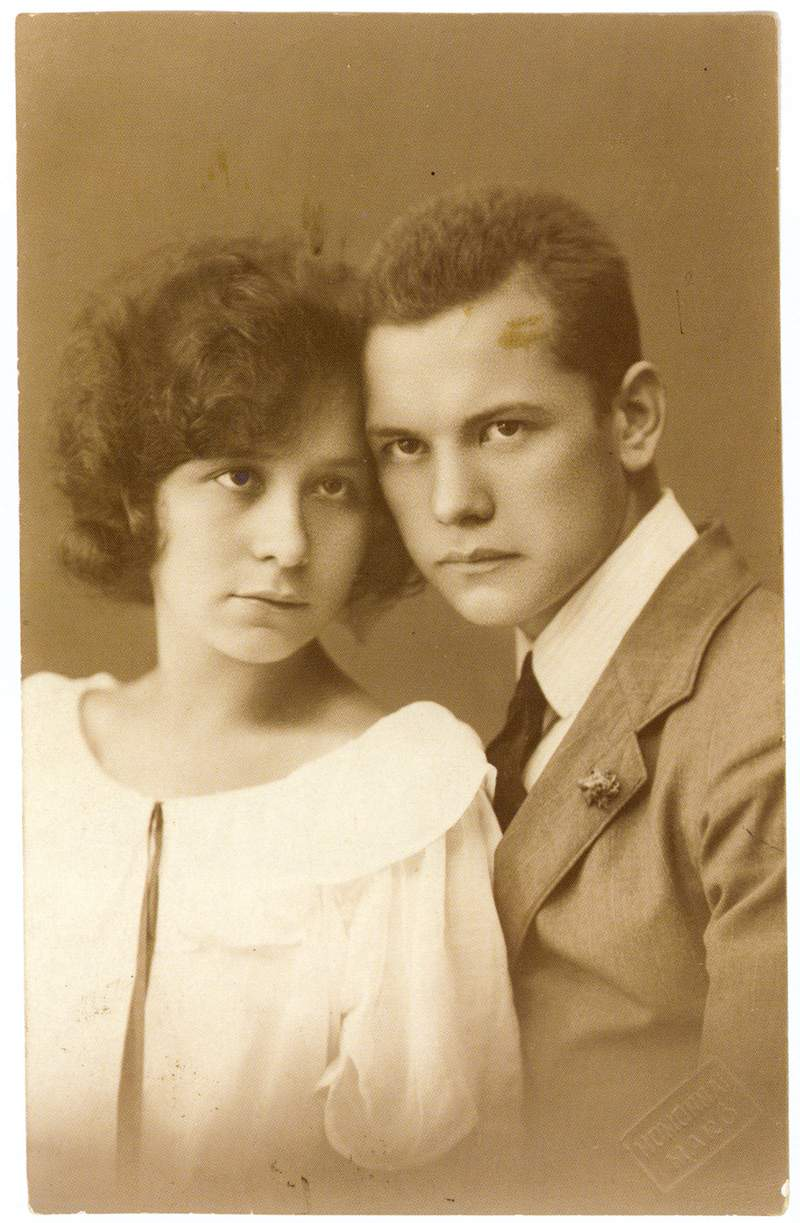 Portrait of Attila József and Etelka József Photograph by Nándor Homonnai in Makó